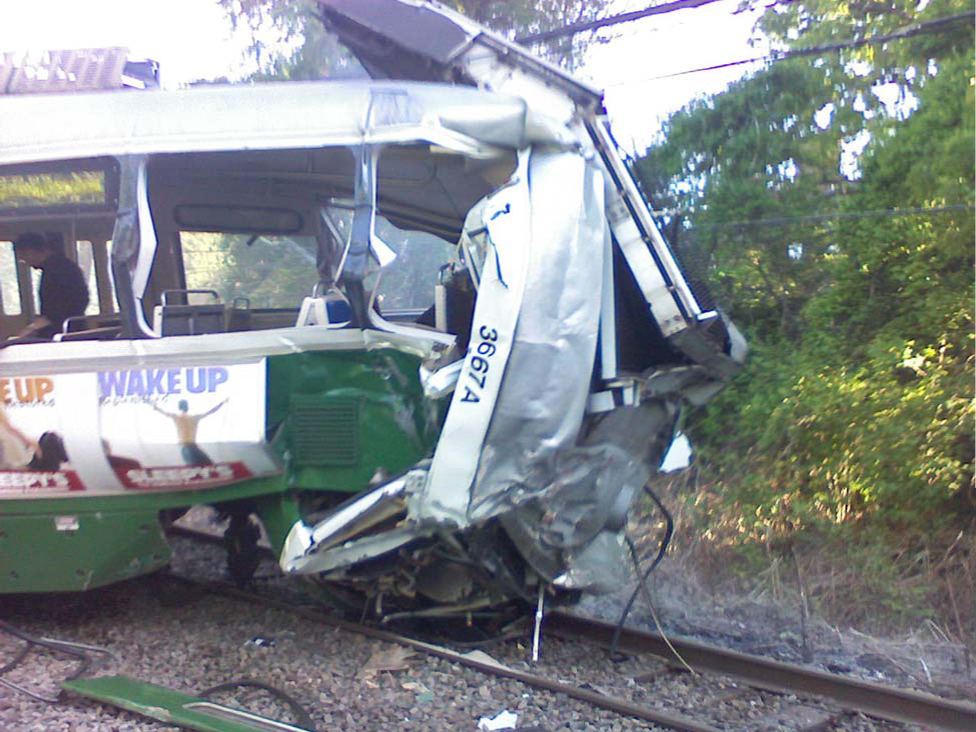 The crushed end of Green Line car #3667, which crashed into another Green Line train in Newton on May 28, 2008